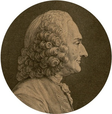 Depicted person: Jean-Philippe Rameau (1683–1764), French composer and music theorist of the Baroque era